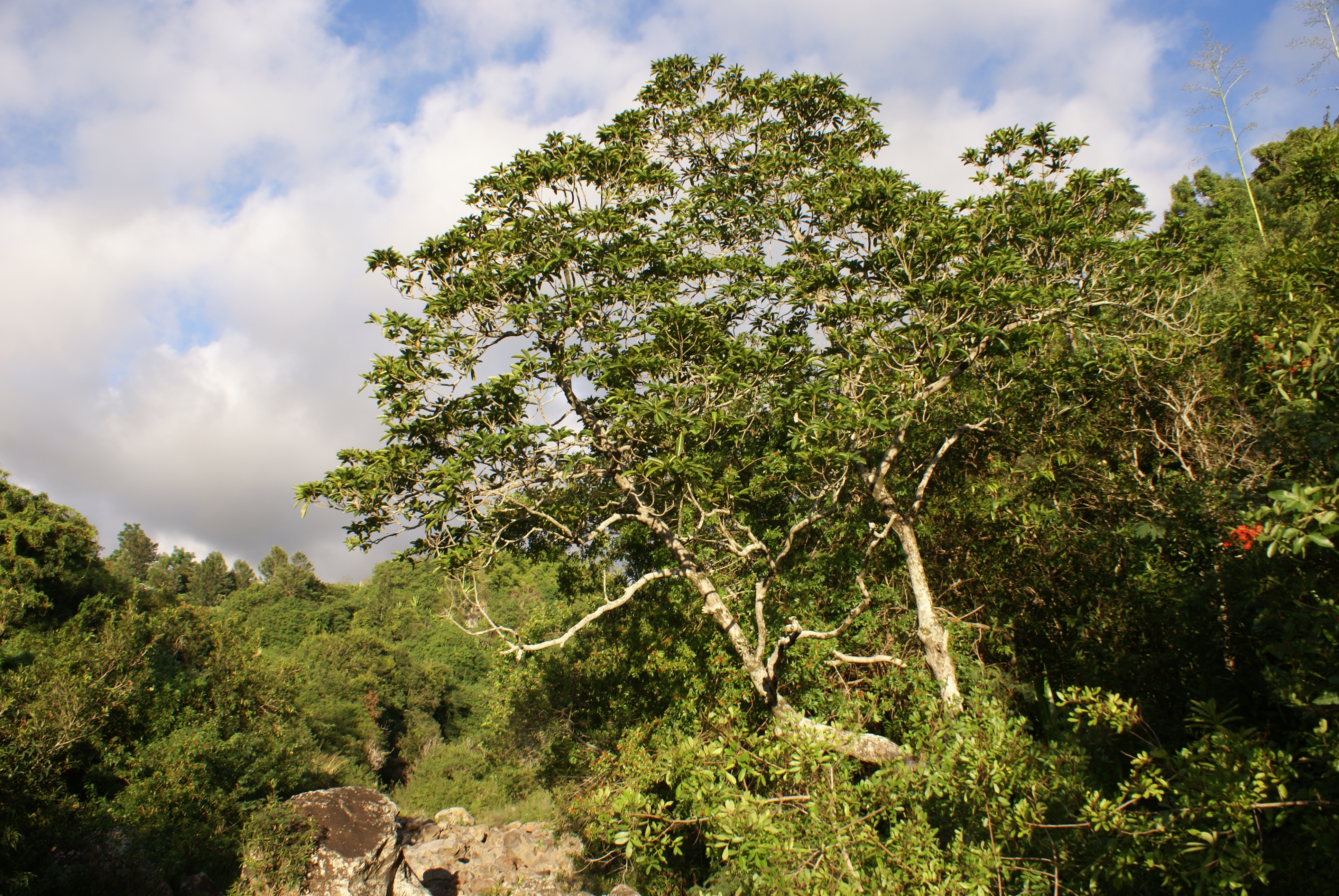 Mimusops balata along ravine Bernica on Réunion Island